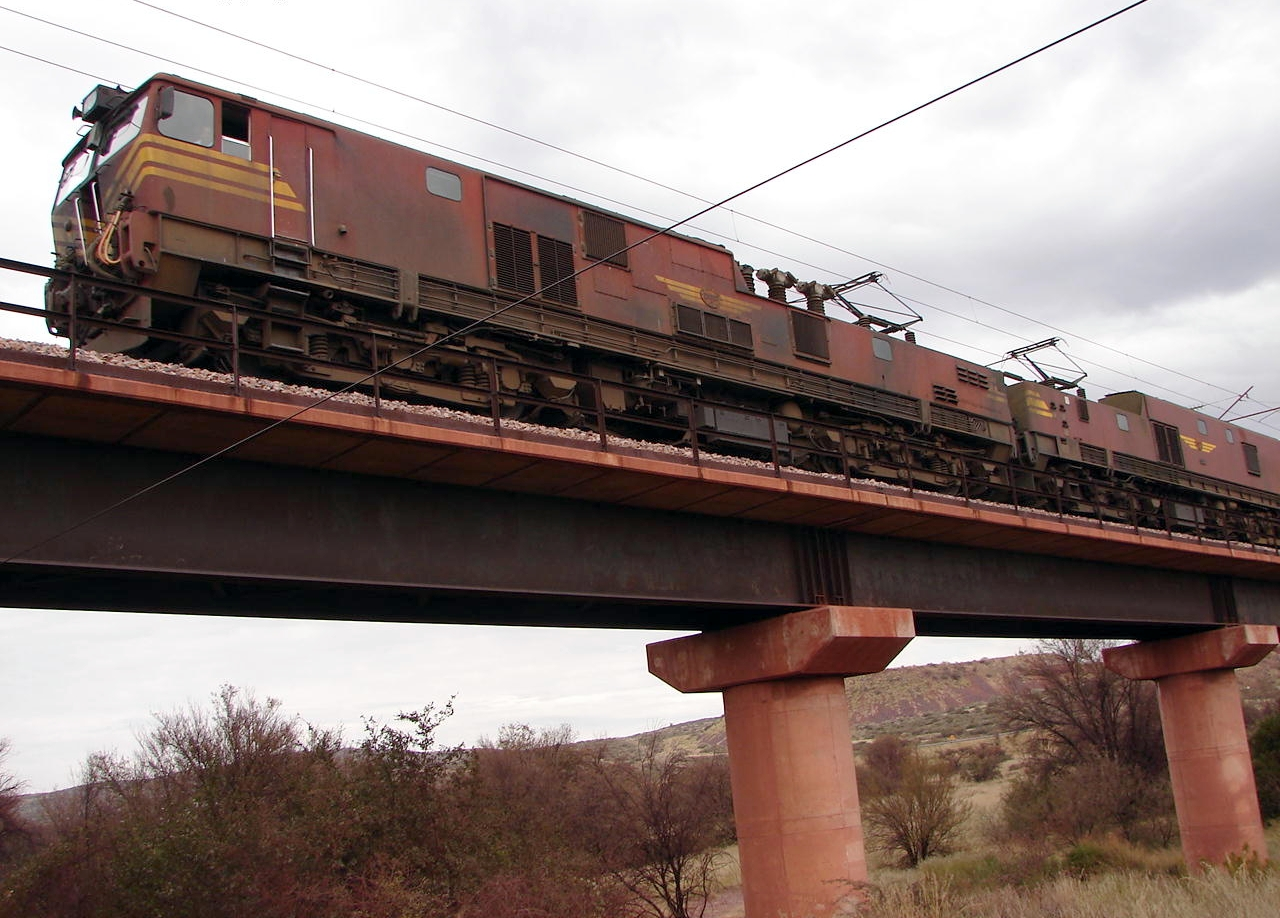 SAR Class 9E Series 1 E9006Builder's Number: GEC 5551 Location: Dingleton, Northern Cape